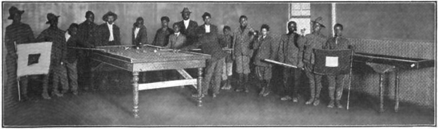 Original caption: "CONSOLIDATION COAL CO'S Y. M. C. A. FOR COLORED MINERS AT BUXTON, IOWA"